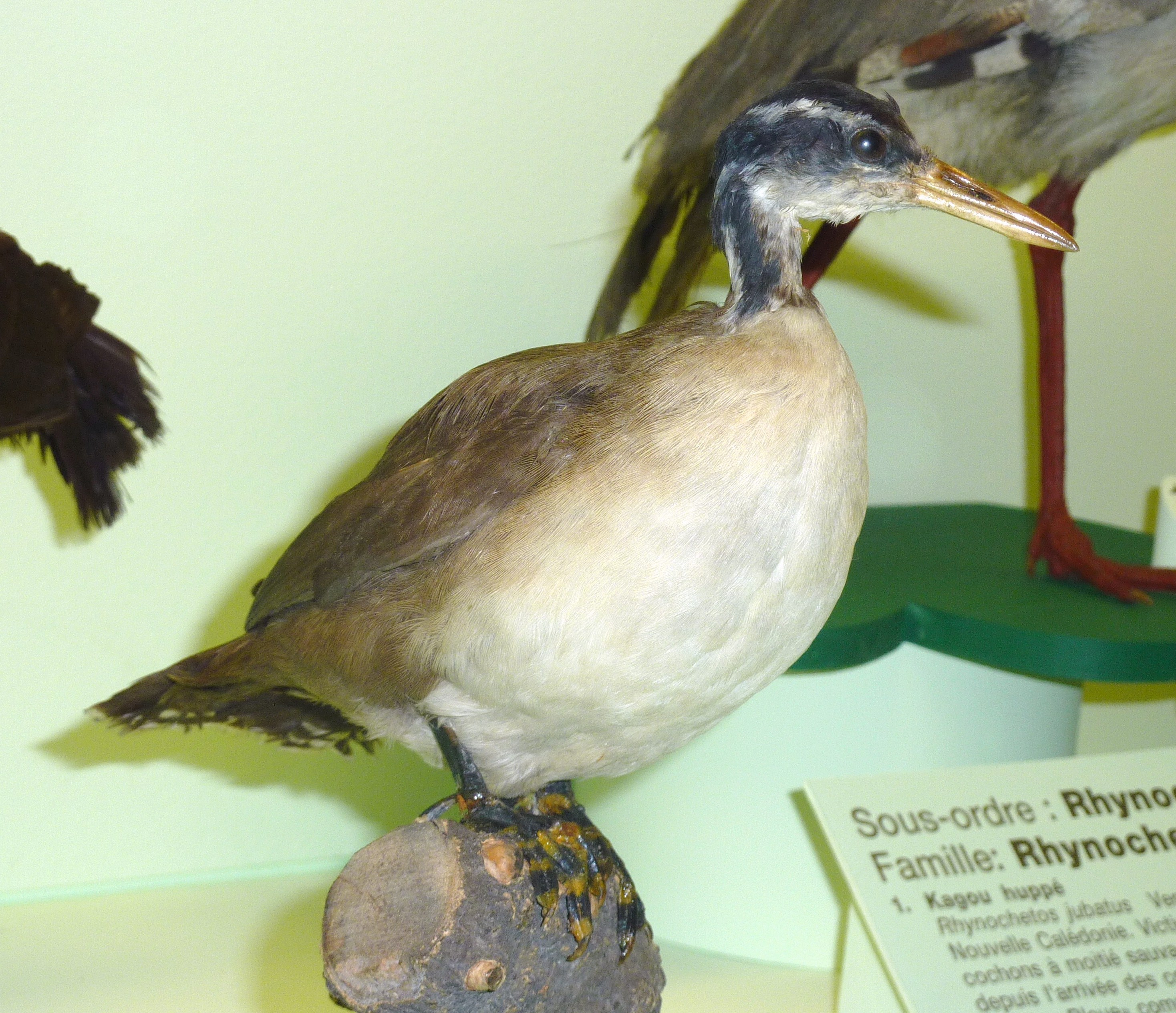 Sungrebe (Heliornis fulica)